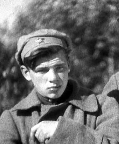 Georgiy Zhzhonov as Tereshka in Chapaev (1934)